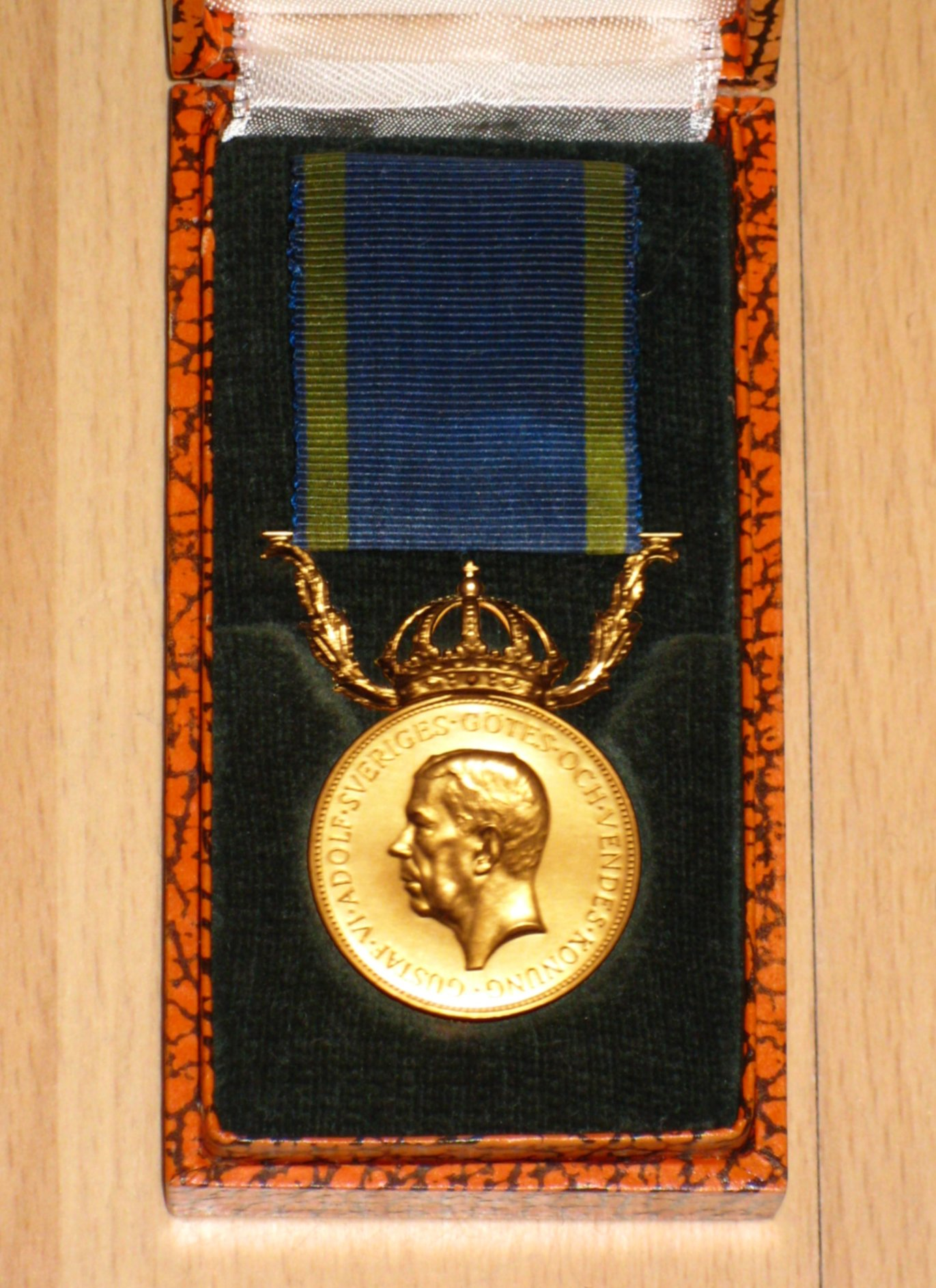 For diligence and probity in the nations's service.